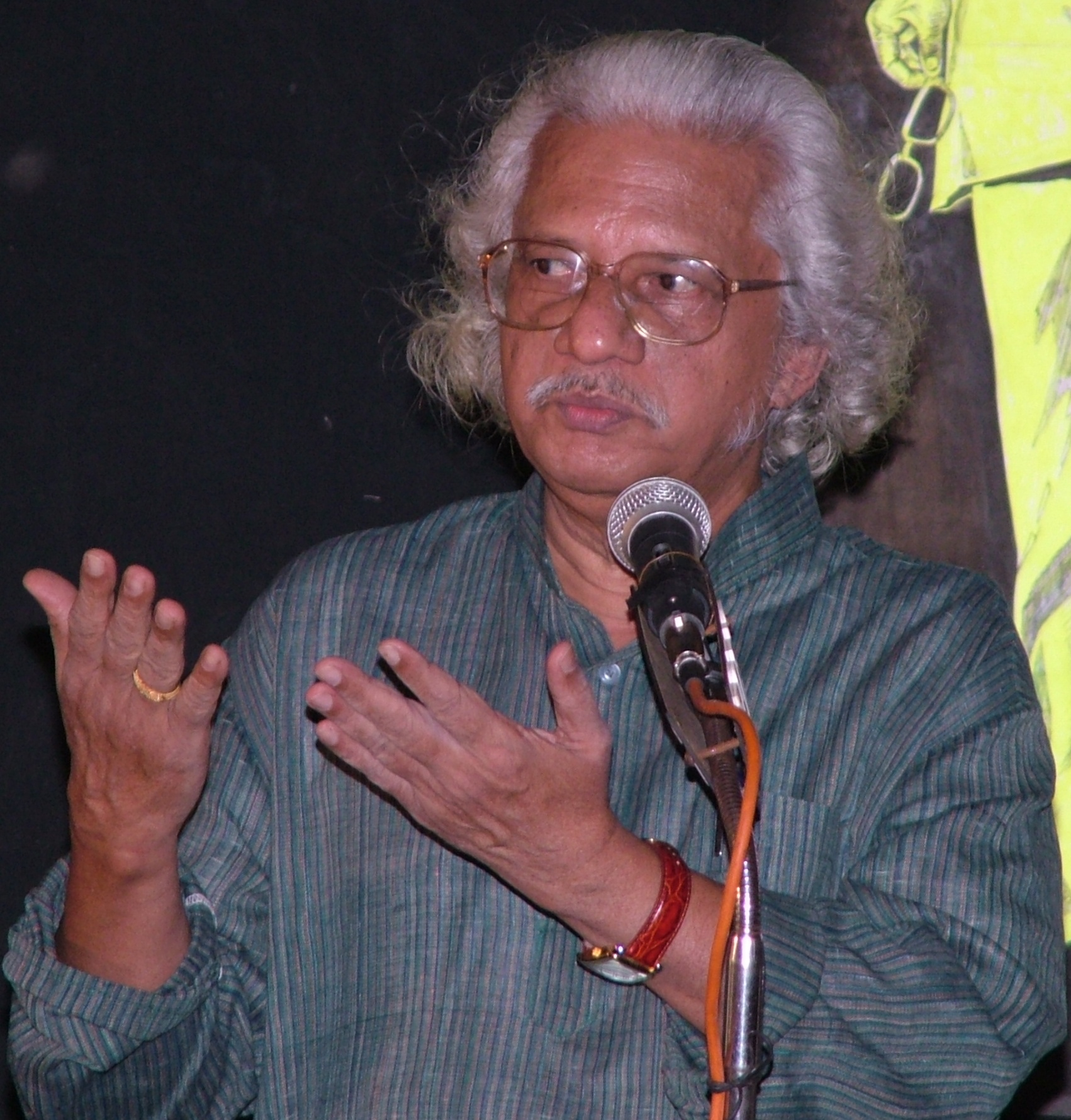 Indian film director, Adoor Gopalakrishnan